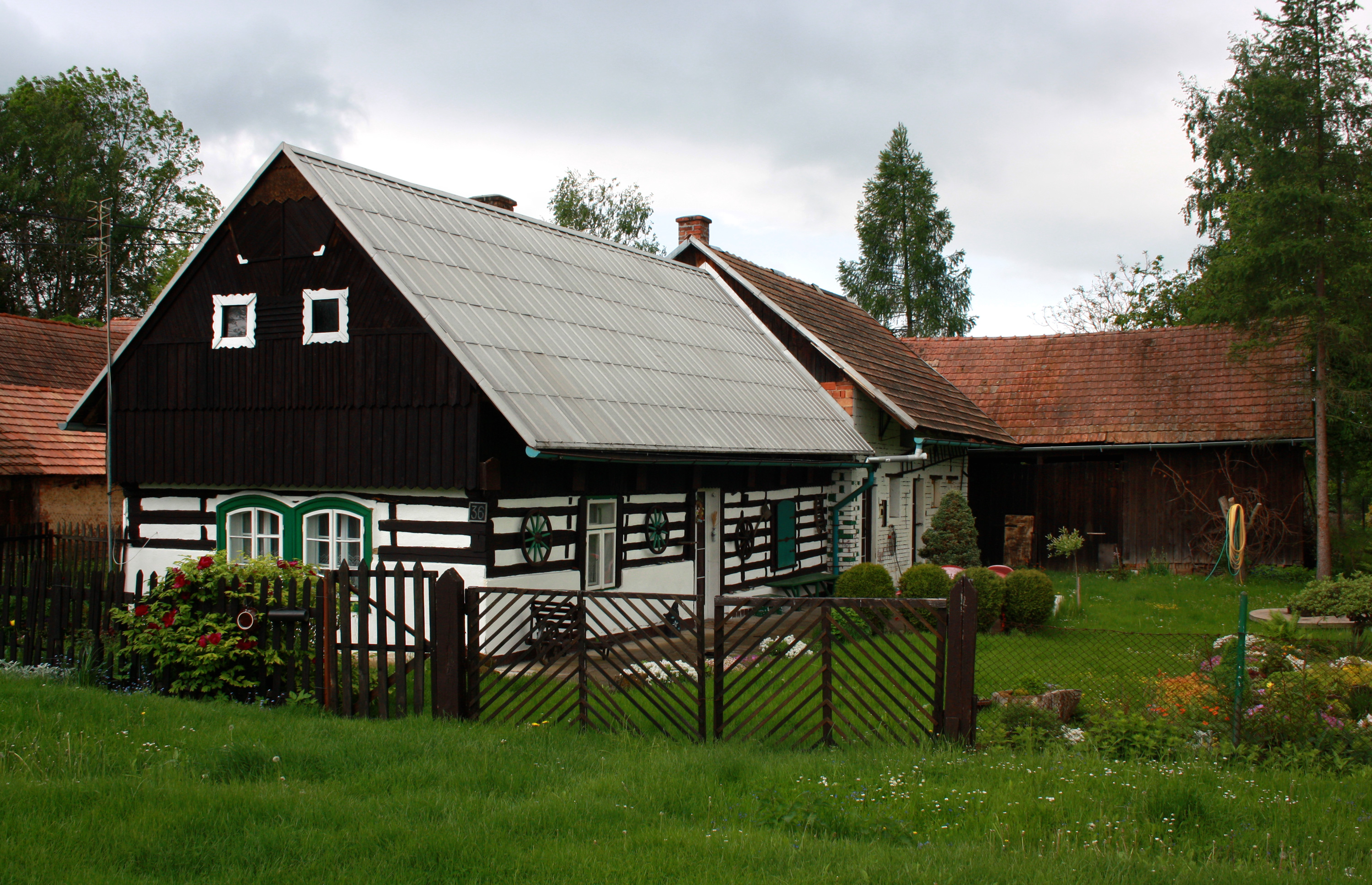 Old house in Bílsko, part of Údrnice village, Czech Republic